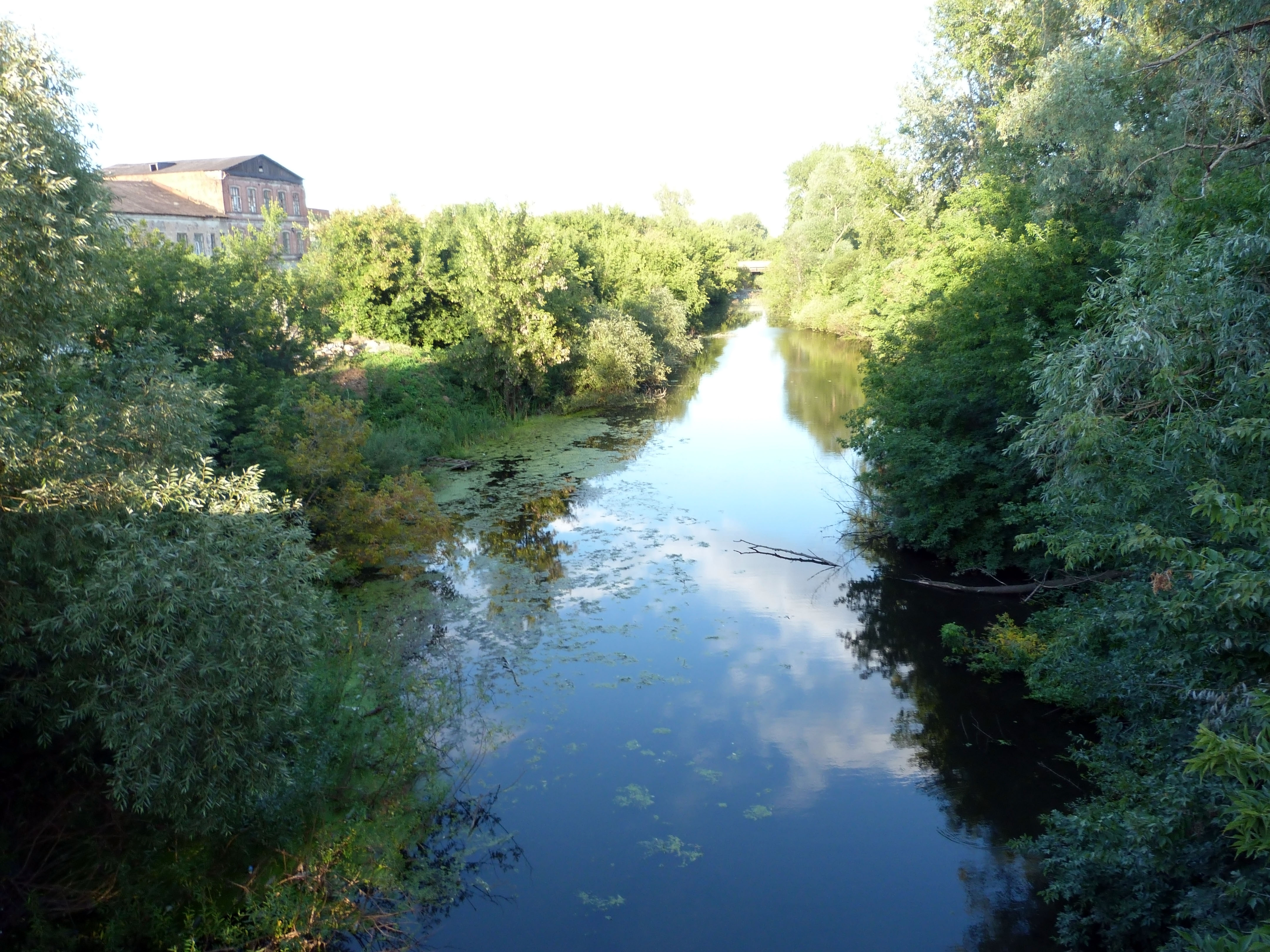 Bolshaya Sarapulka River, Sarapul